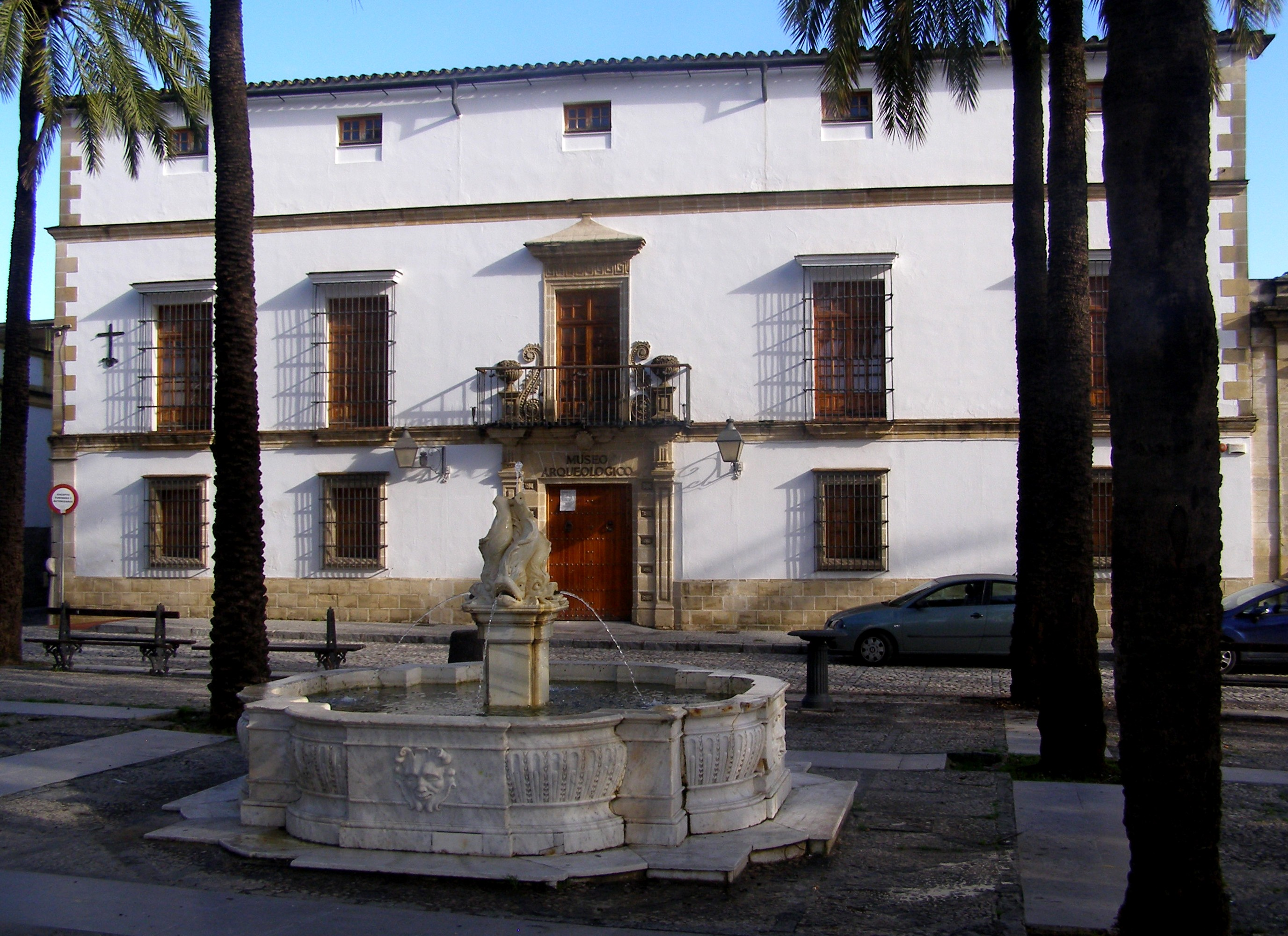 Museo Arqueologico Ampliacion Jerez de la Frontera